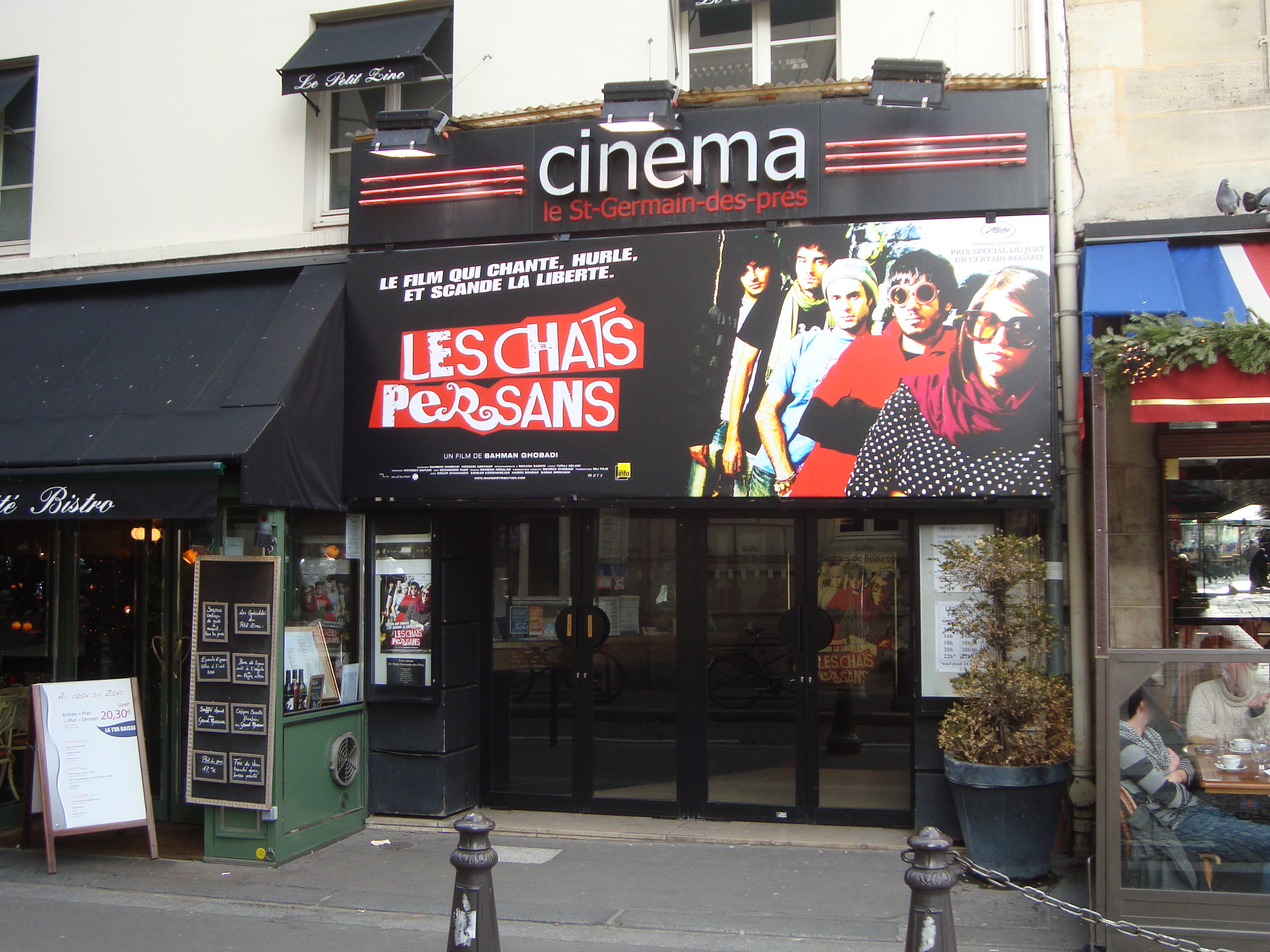 Cinéma le Saint-Germain-des-Prés, à Paris, place Saint-Germain-des-Prés